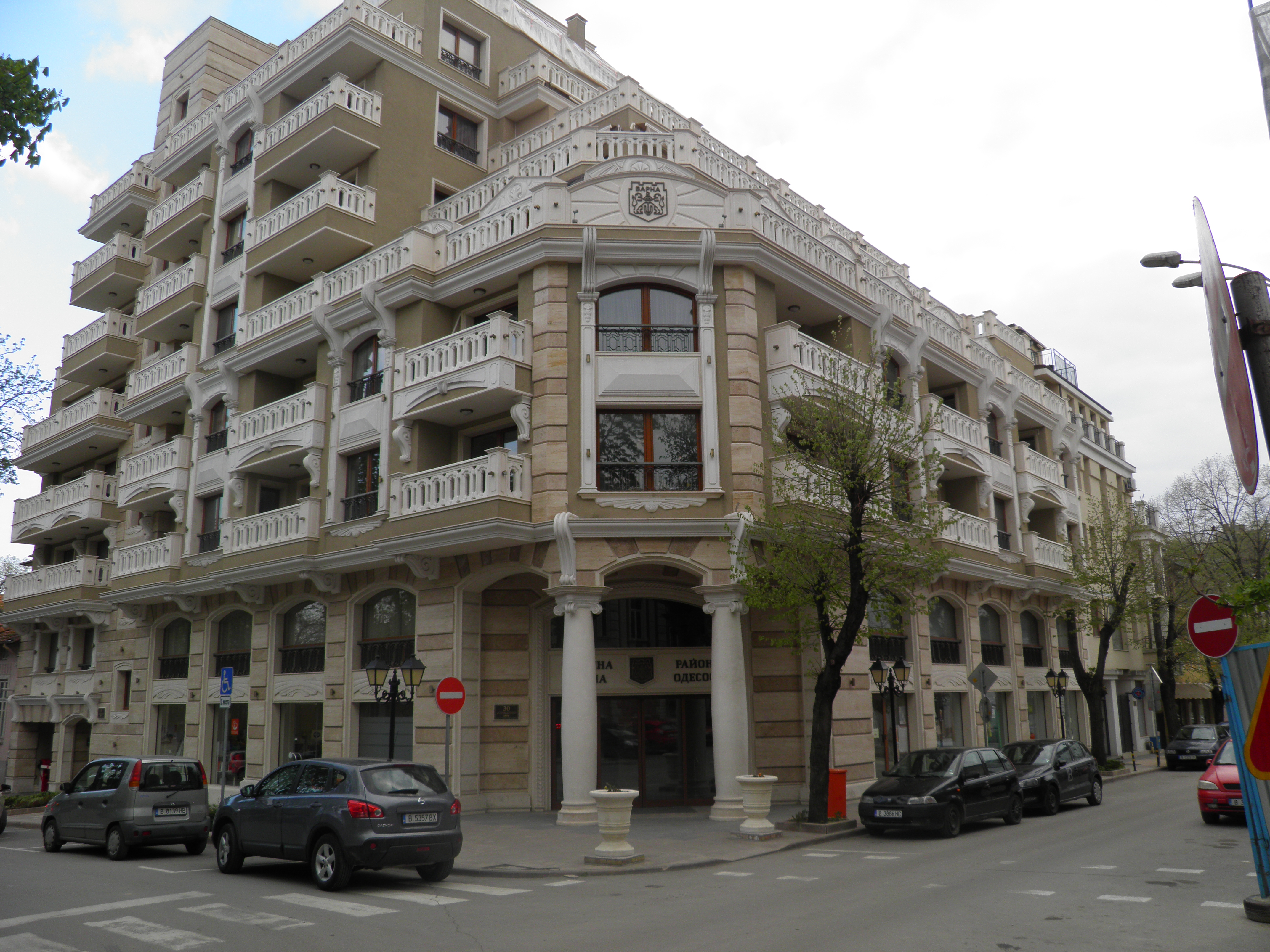 Varna